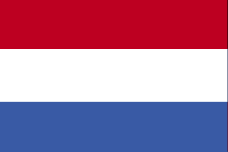 Flag with three horizontal stripes: red-white-blue